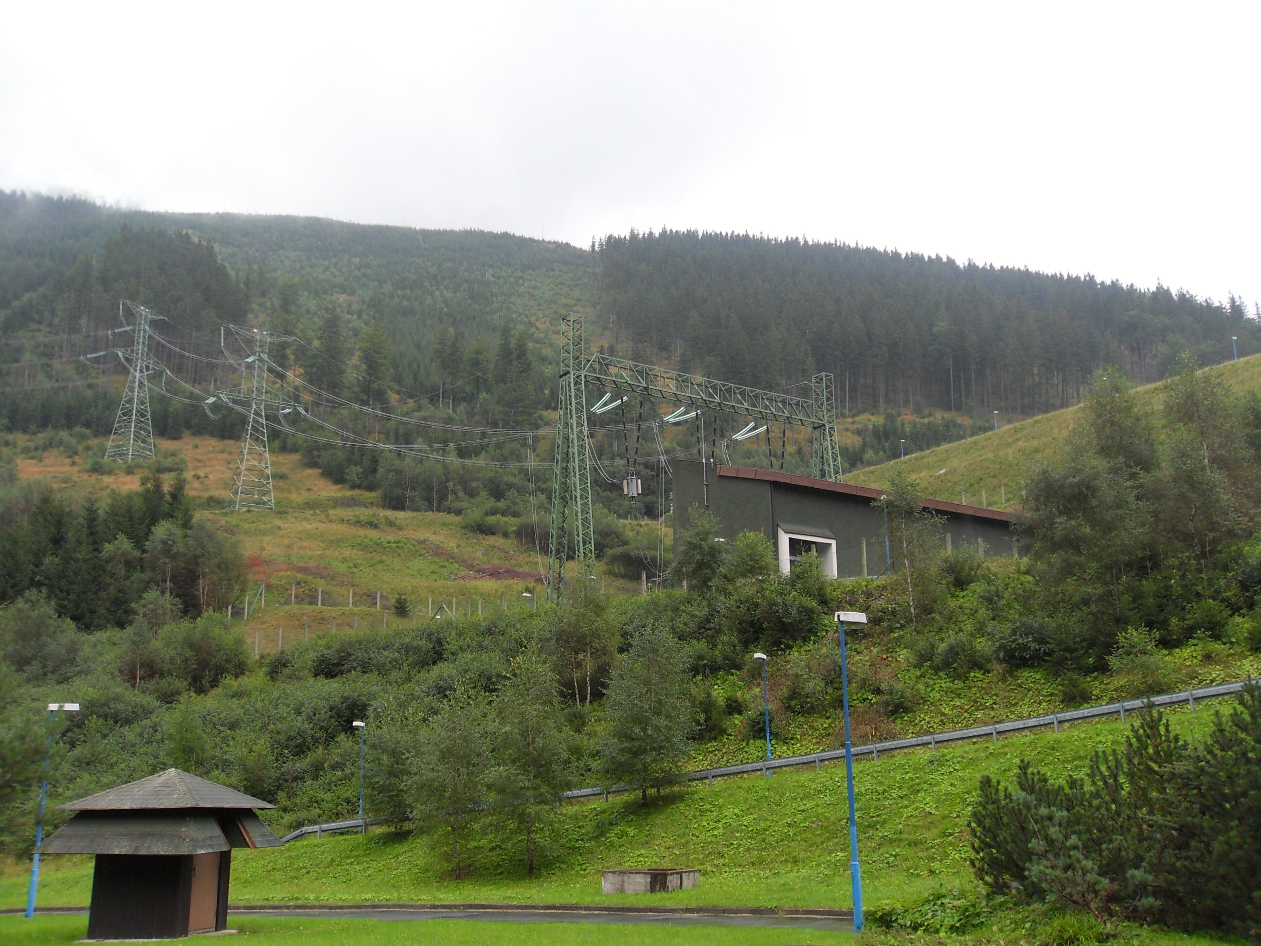 Krasíkov–Dlouhé Stráně 400 kV power line (V457) and substation at Dlouhé stráně Hydro Power Plant, Rejhotice, Loučná nad Desnou, Šumperk district, Czech Republic